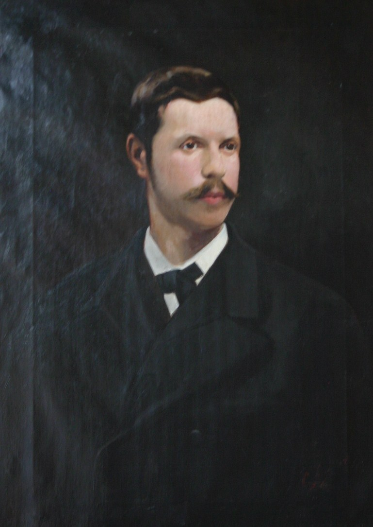 Painting of Archduke Ludwig Salvator in Son Marroig